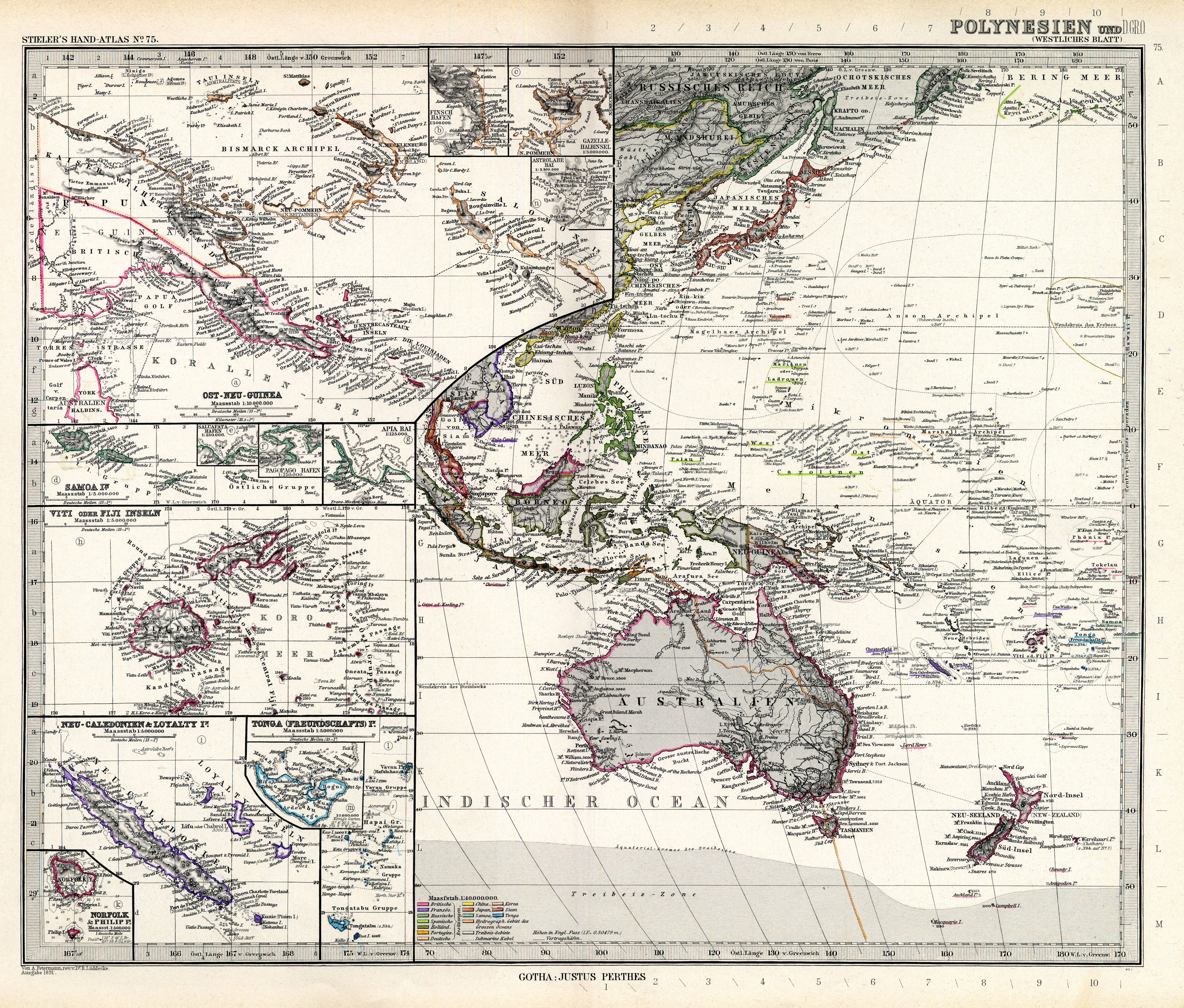 Polynesia and the Pacific Ocean (western sheet)